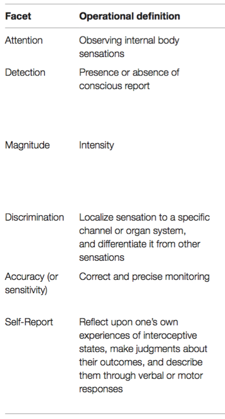 This table defines many of the different facets or components of interoception.